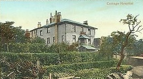 Postcard of Malton Cottage Hospital, Yorkshire